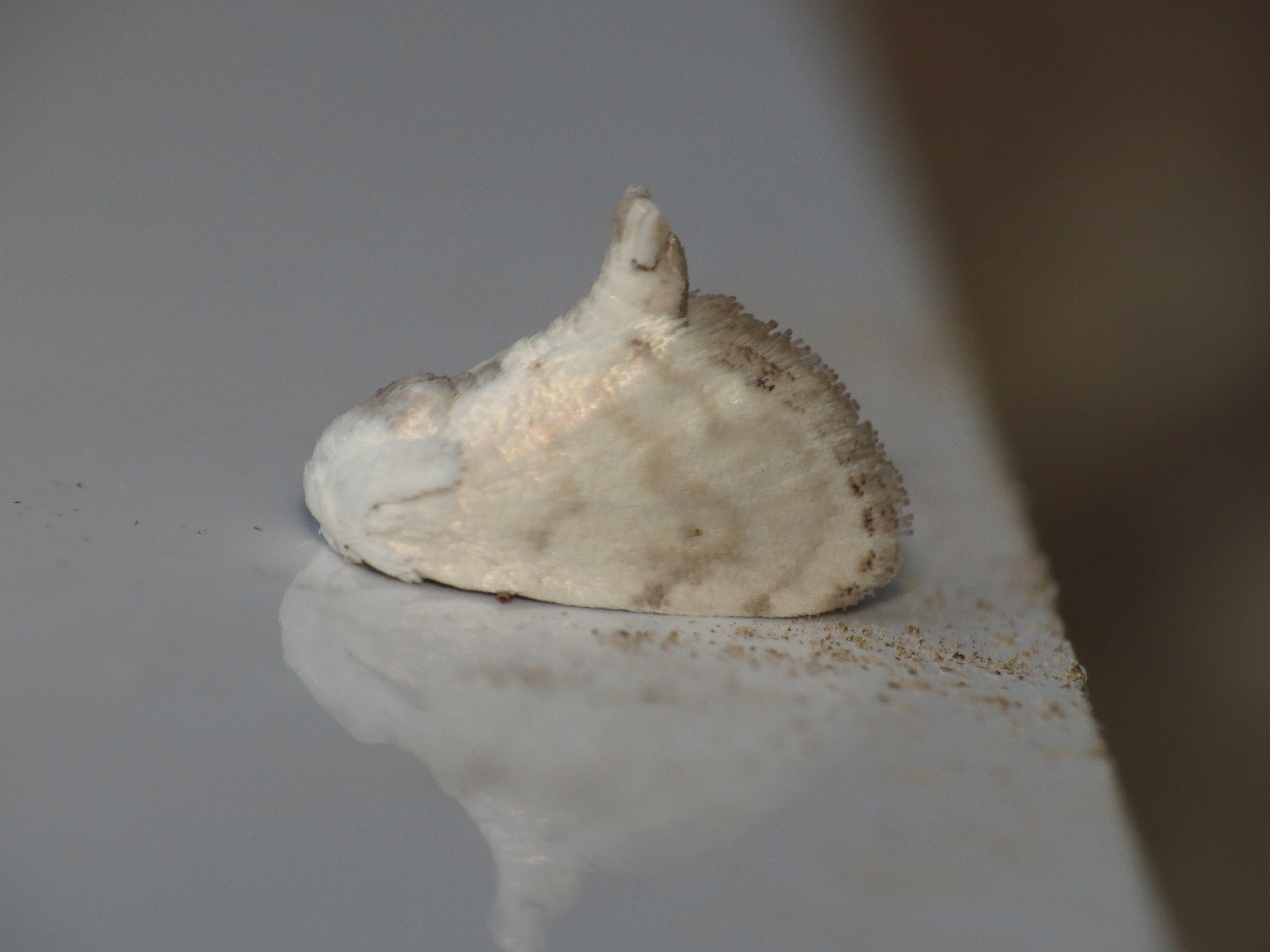 Niphopyralis chionesis Hampson, 1919, to actinic light, Clump Point, Mission Beach, QLD, 21/22 November 2014